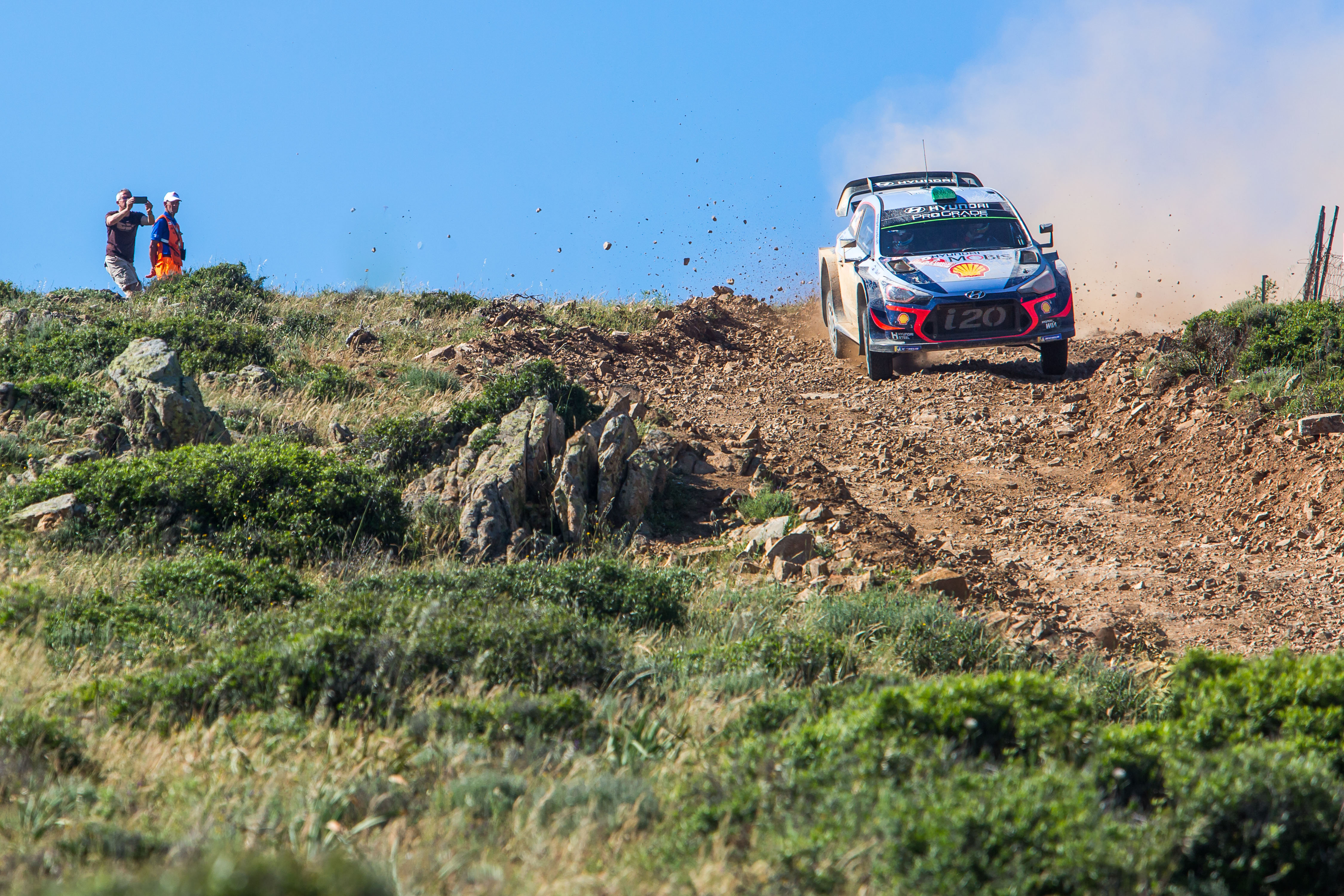 2018 FIA World Rally Championship Round 07, Rally Italia Sardegna 07-10 June 2018 Hayden Paddon i Sebastian Marshall